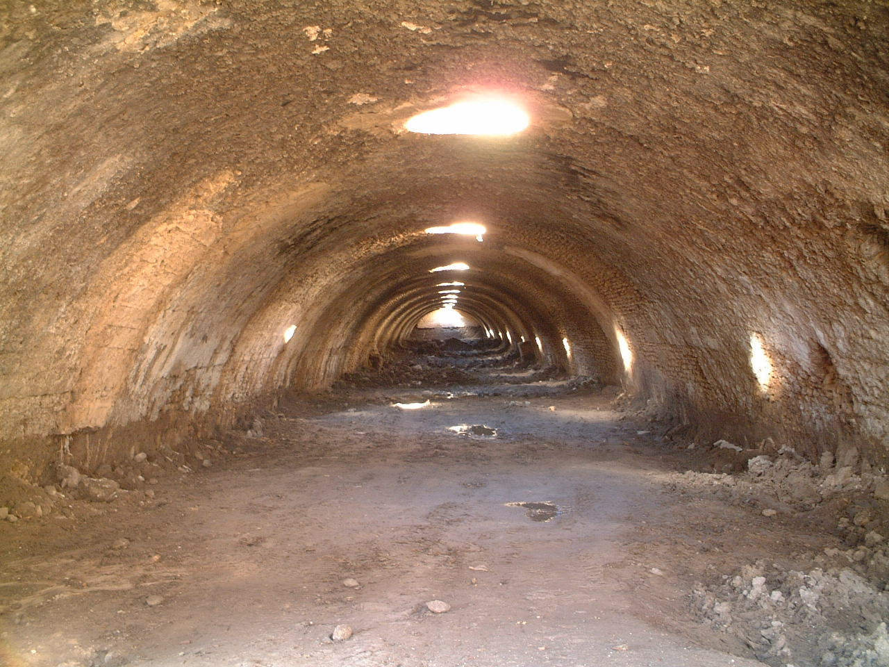 Carthage aqueducts, Carthage, Tunisia.